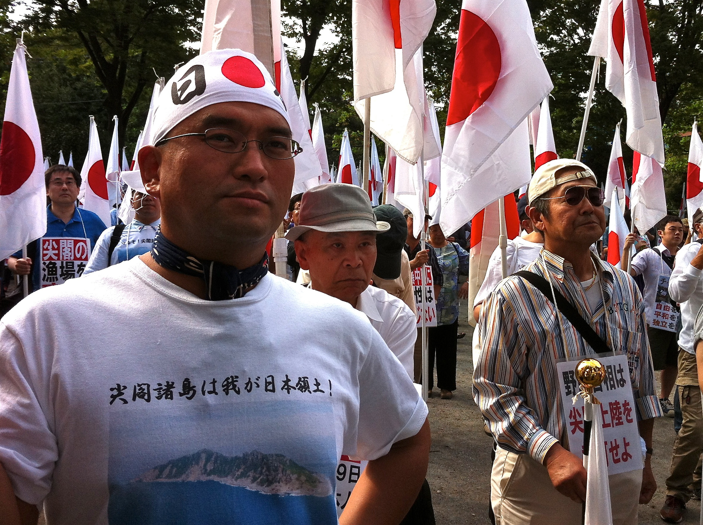 The nationalist far-right group Ganbare Nippon stages a Senkaku Islands protest.